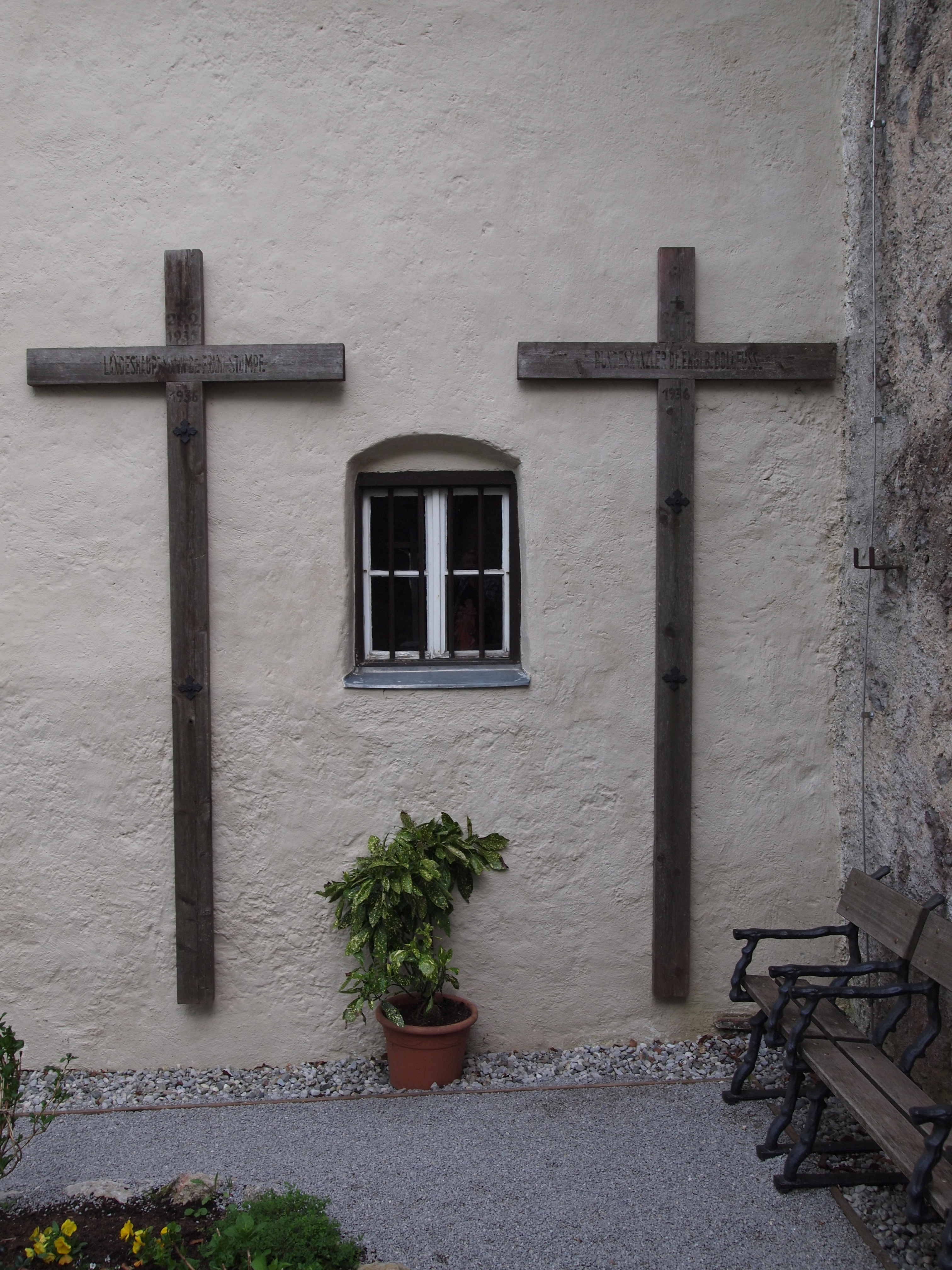 Crosses on the outside wall of the Thierbergchapel on Thierberg Mountain neark Kufstein, Tyrol, Austria.